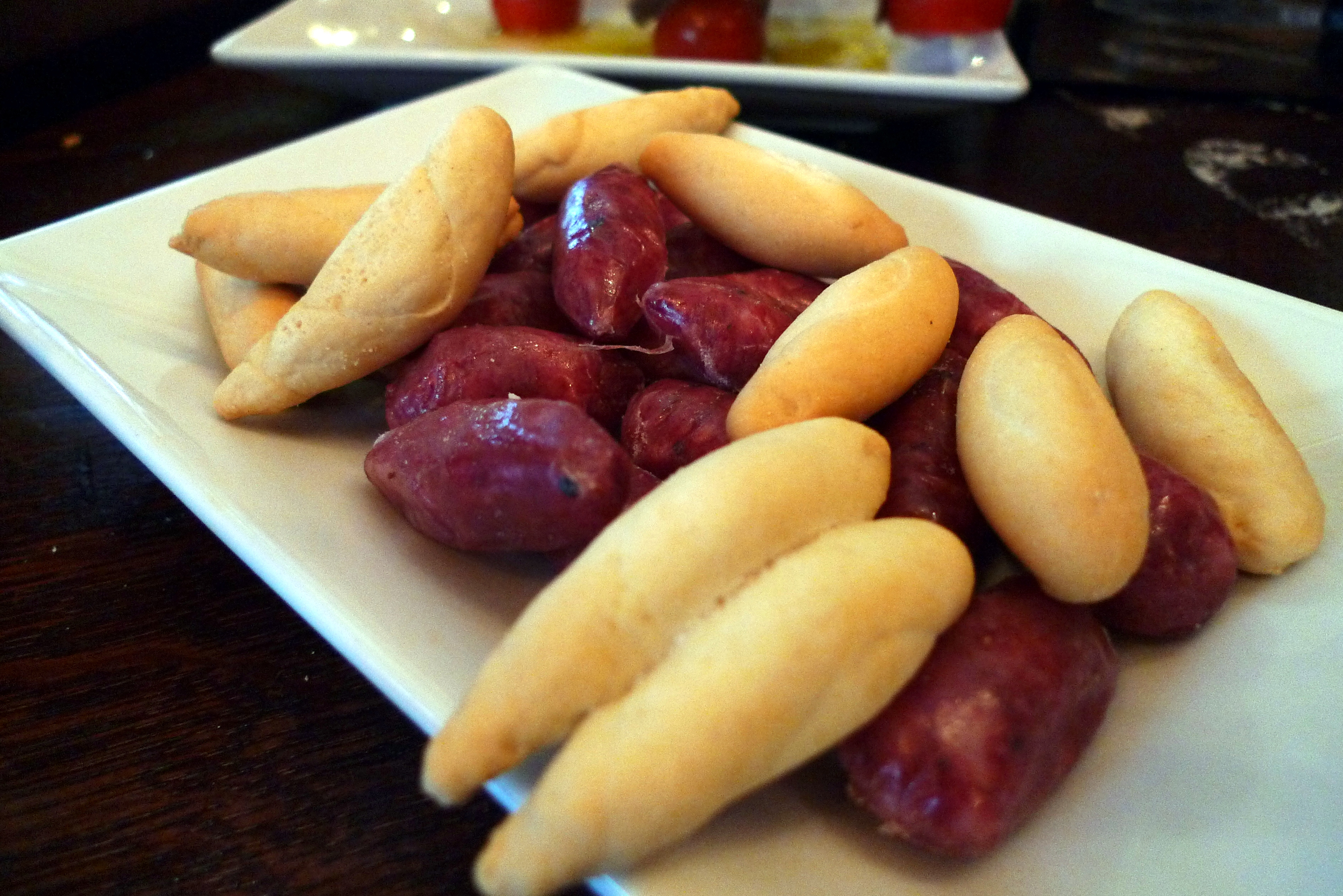 The picos ibéricos de Jabugo, tasty salchichón sausage, served with mini bread sticks. Very nice. At Bar Pepito, Varnishers Yard.